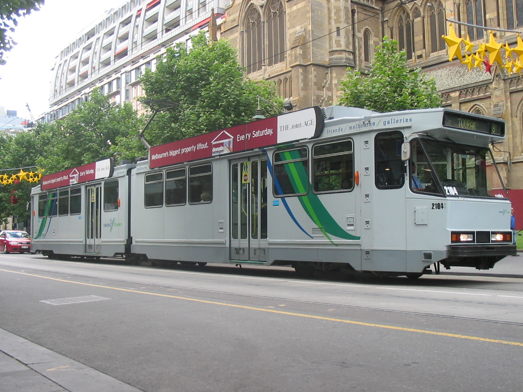 This image was copied from (Image:B class tram.jpg). The original description was: B2.2104 in Yarra Trams livery on Swanston St. Picture taken by myself.